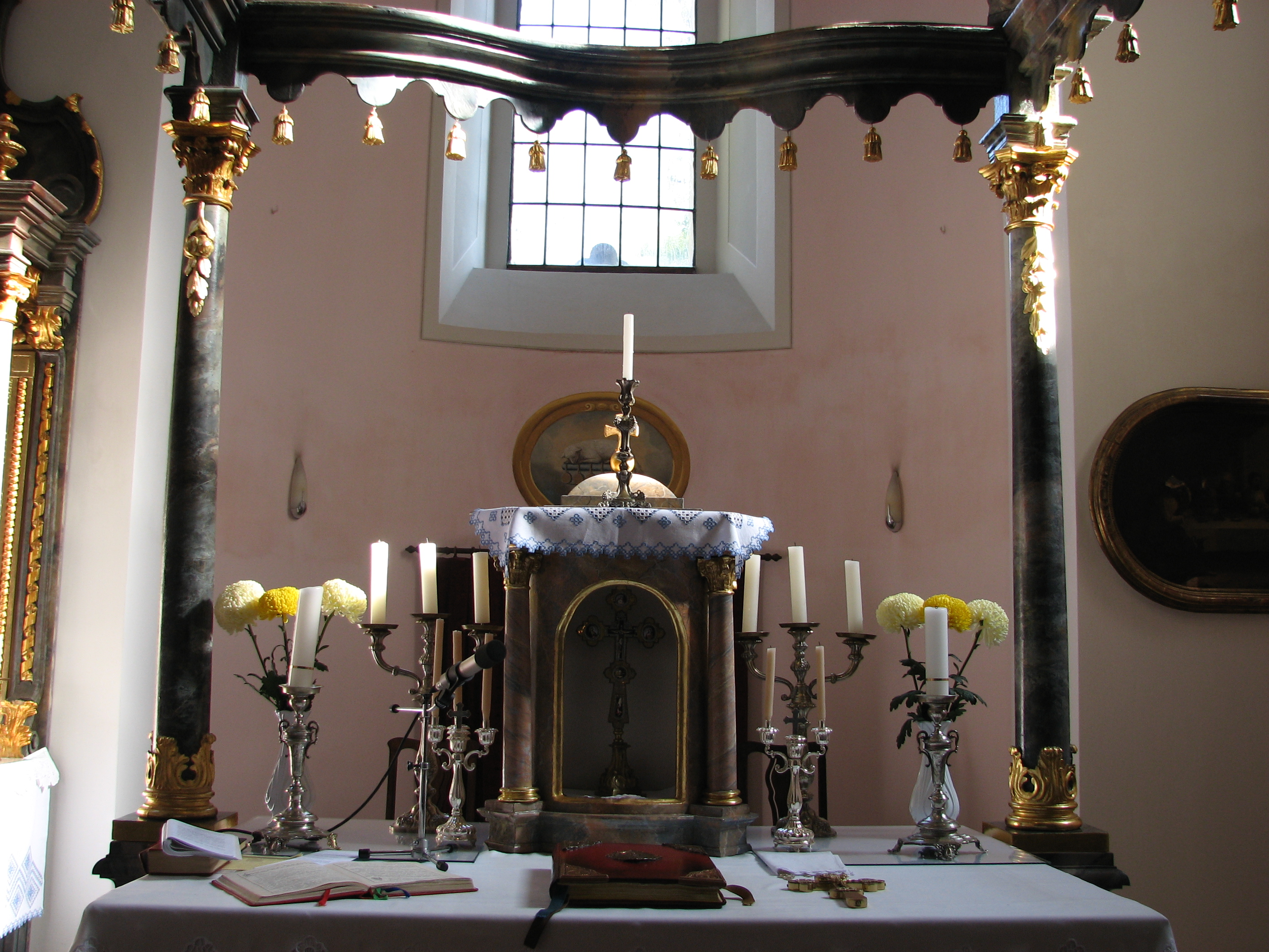 The picture depicts the main altar of the Greek Catholic Cathedral of Hajdúdorog, Hungary. It was restored in 2006.